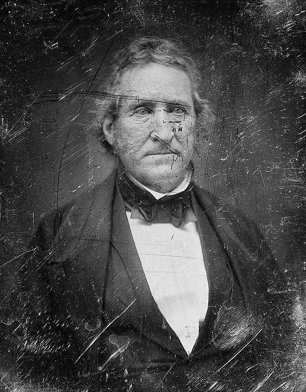 Thomas Hart Benton — Democratic Senator from Missouri, 1821-1851